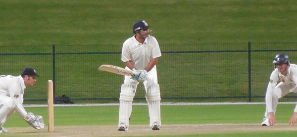 Virender Sehwag, the captain of Marylebone Cricket Club gets ready to face a delivery during the 2014 English county season launch against Durham at the Sheikh Zayed Cricket Stadium, Abu Dhabi, UAE.